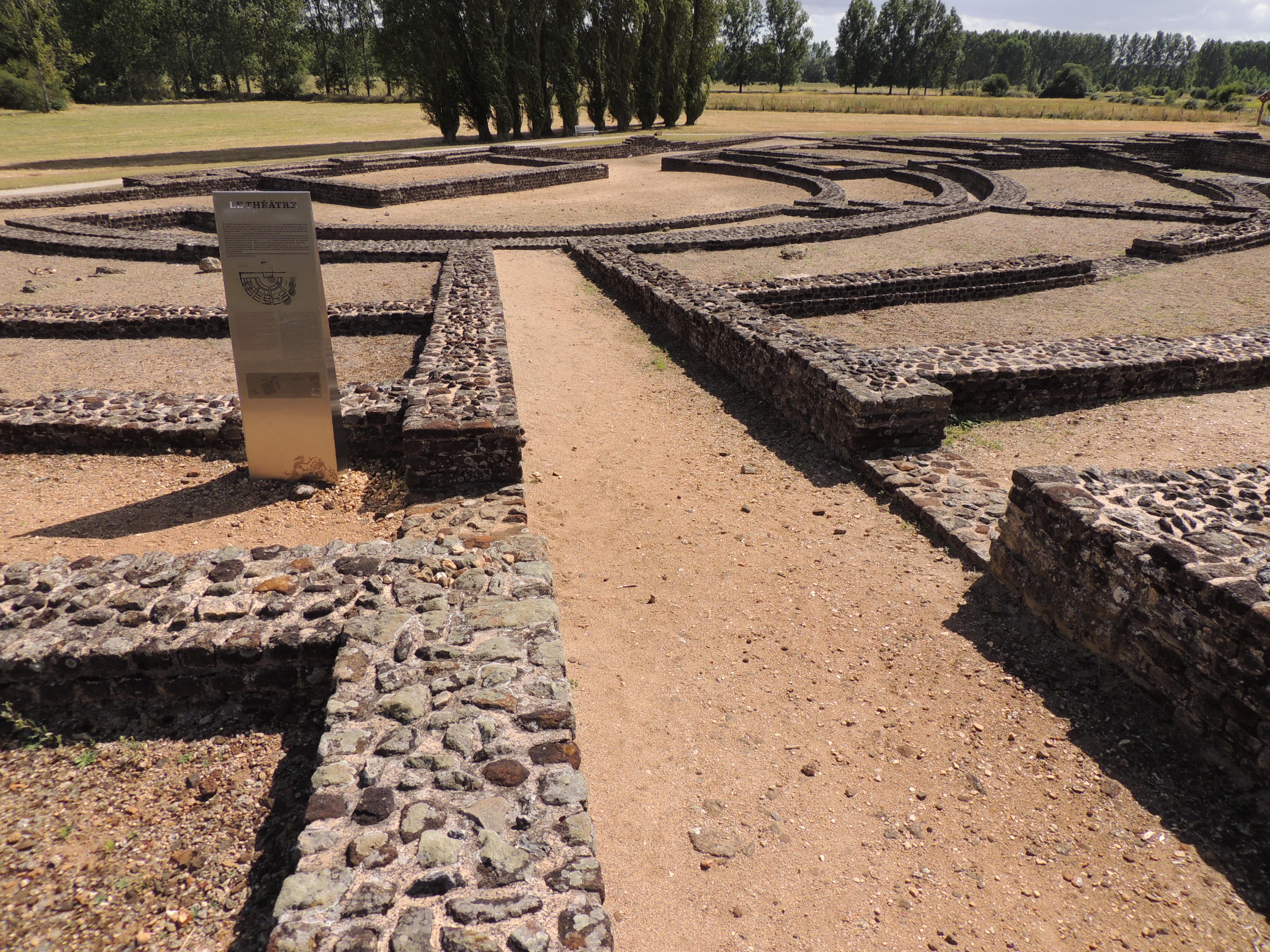 Le théâtre antique du site archéologique de Cherré